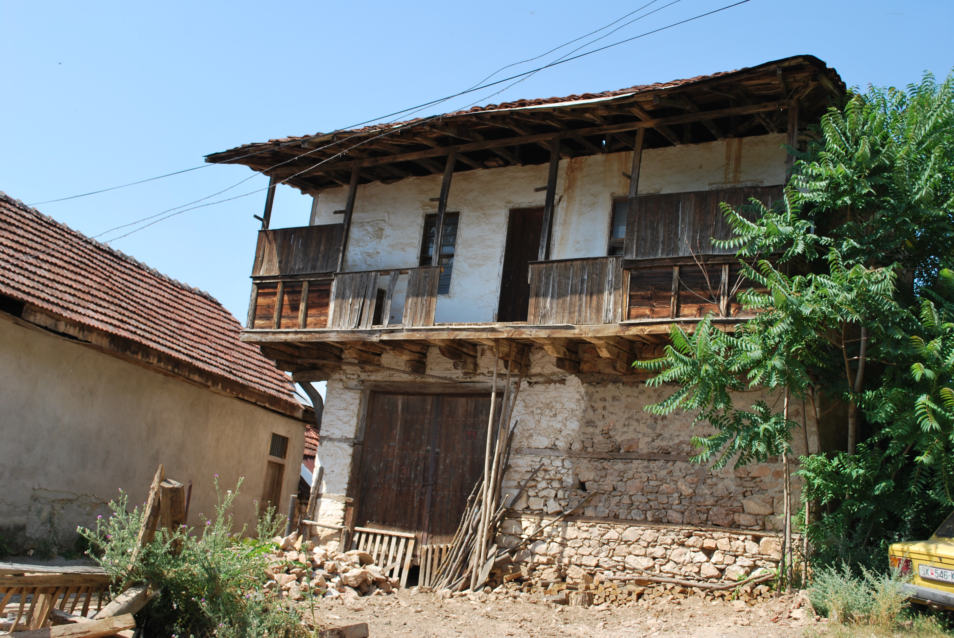 Volkovija near Tetovo, Macedonia